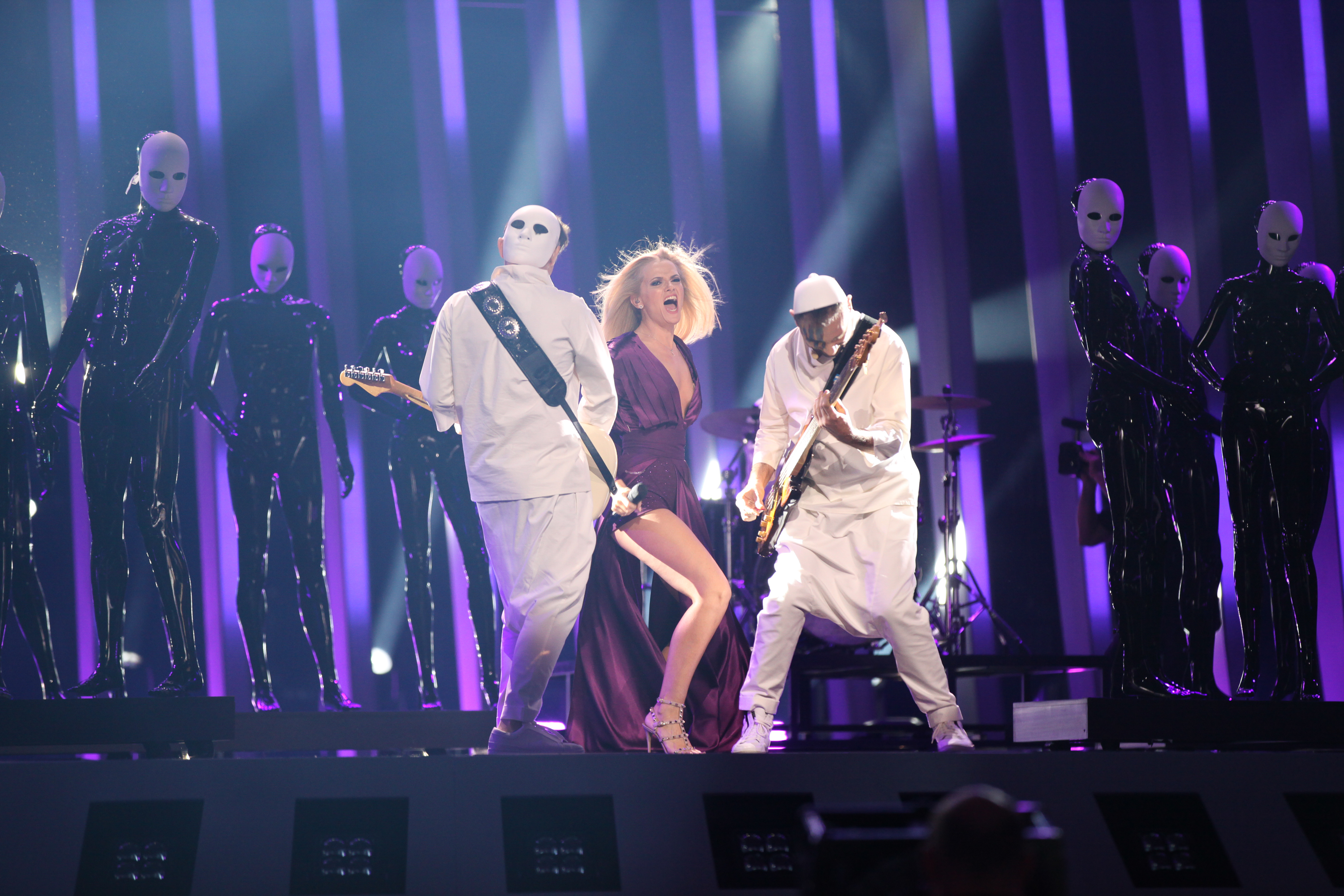 The Humans representing Romania with the song "Goodbye" during a rehearsal before the second semi final of the Eurovision Song Contest 2018 in Lisbon.